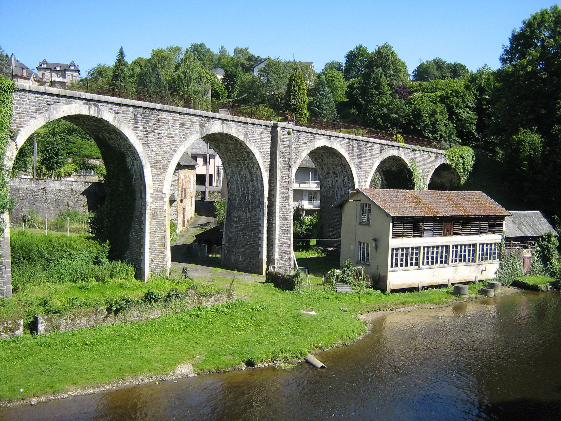 uzerche